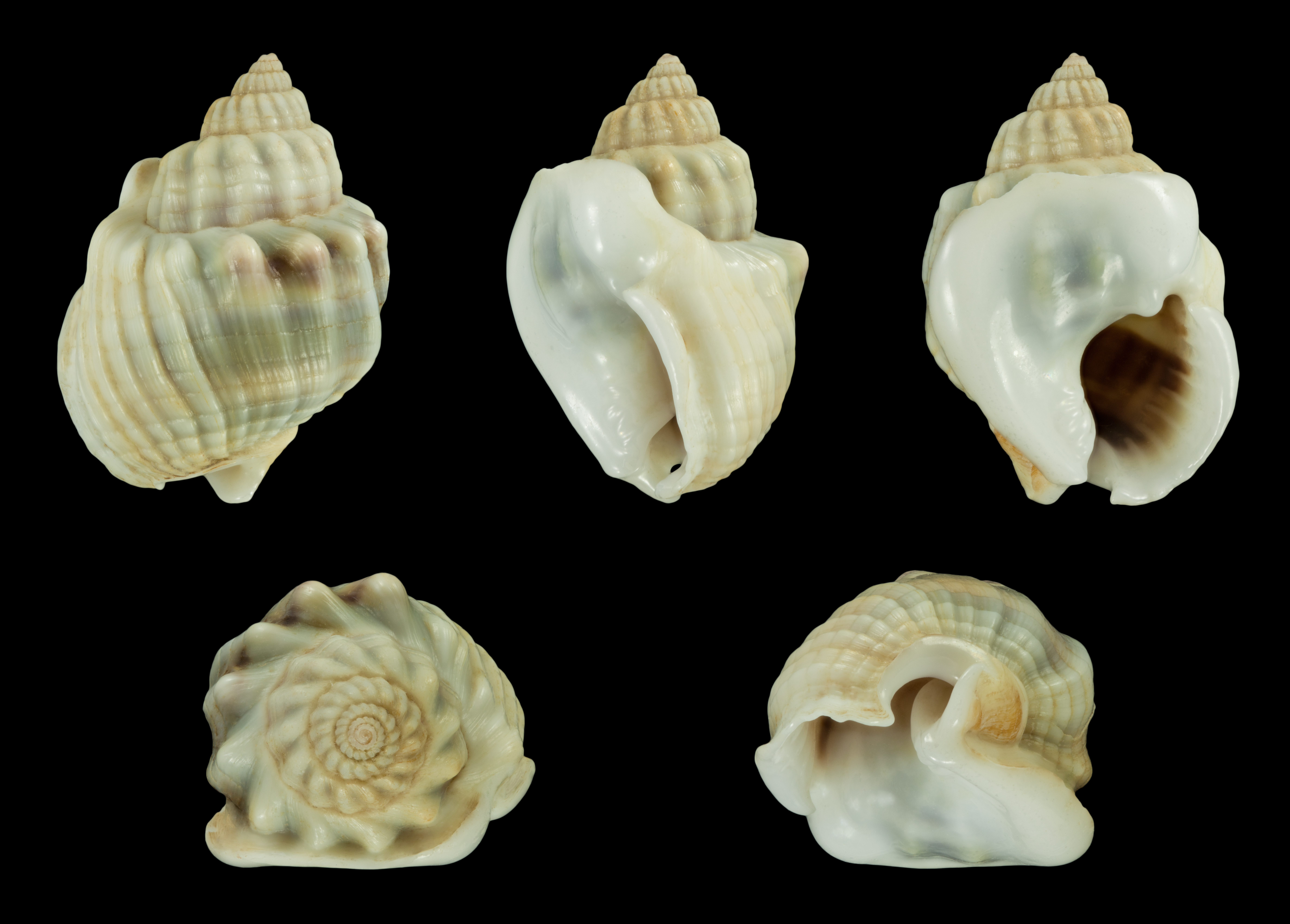 Nassarius arcularia (Linnaeus, 1758), Casket Nassa; length 2.2 cm; Originating from Madagascar; Shell of own collection, therefore not geocoded.